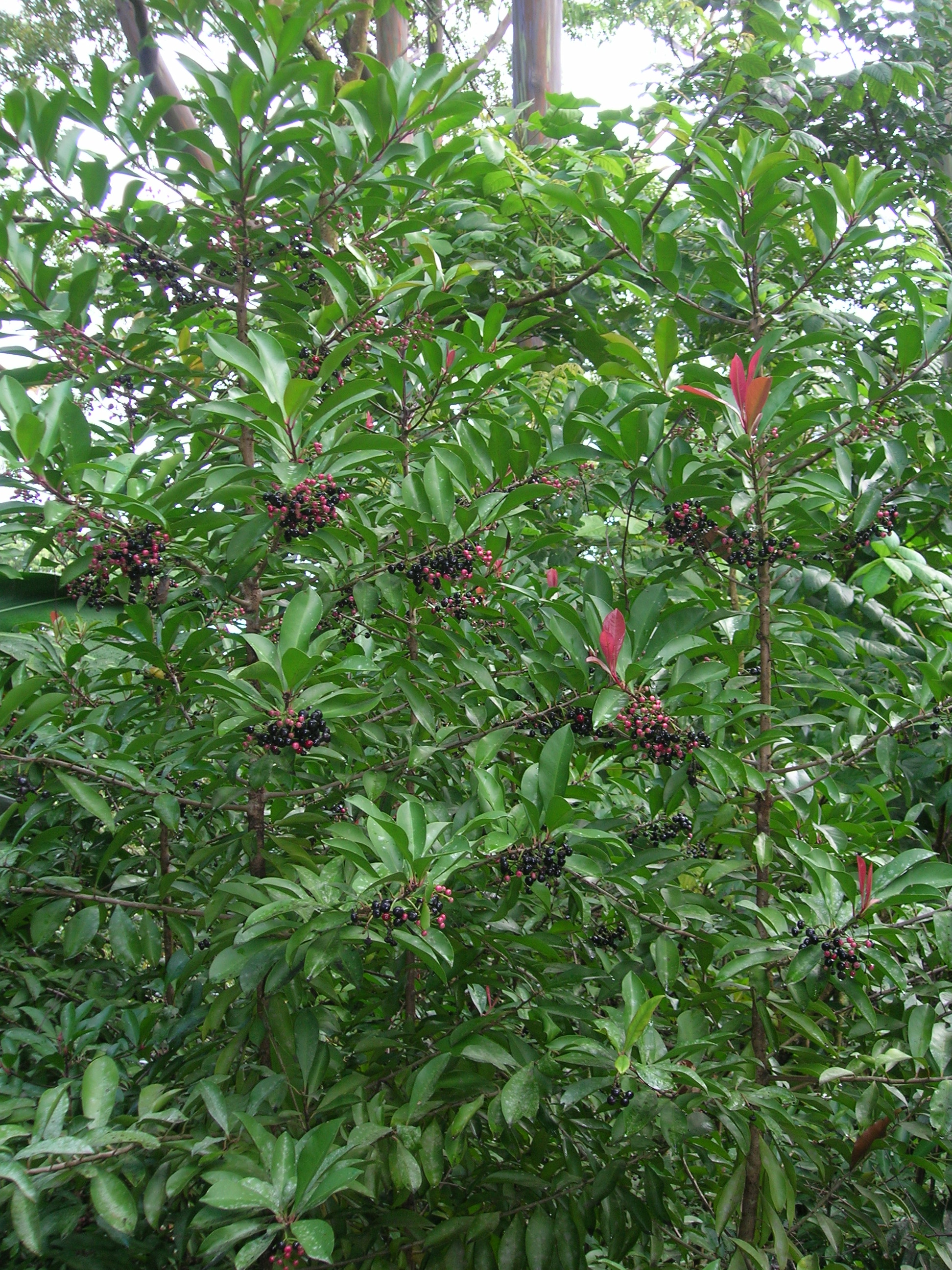 Ardisia elliptica (habit). Location: Maui, Hana Hwy